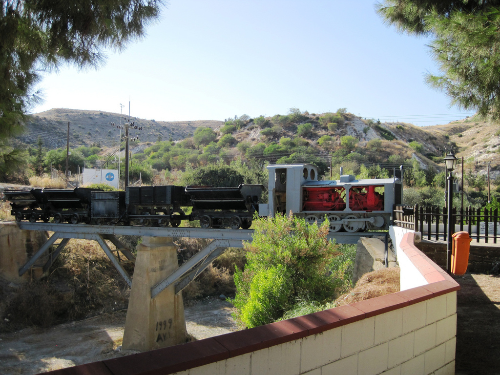 Sitting atop the bridge. Apparently a previously used train to bring up ore from the nearby mine of Kalavasos/Asgata.